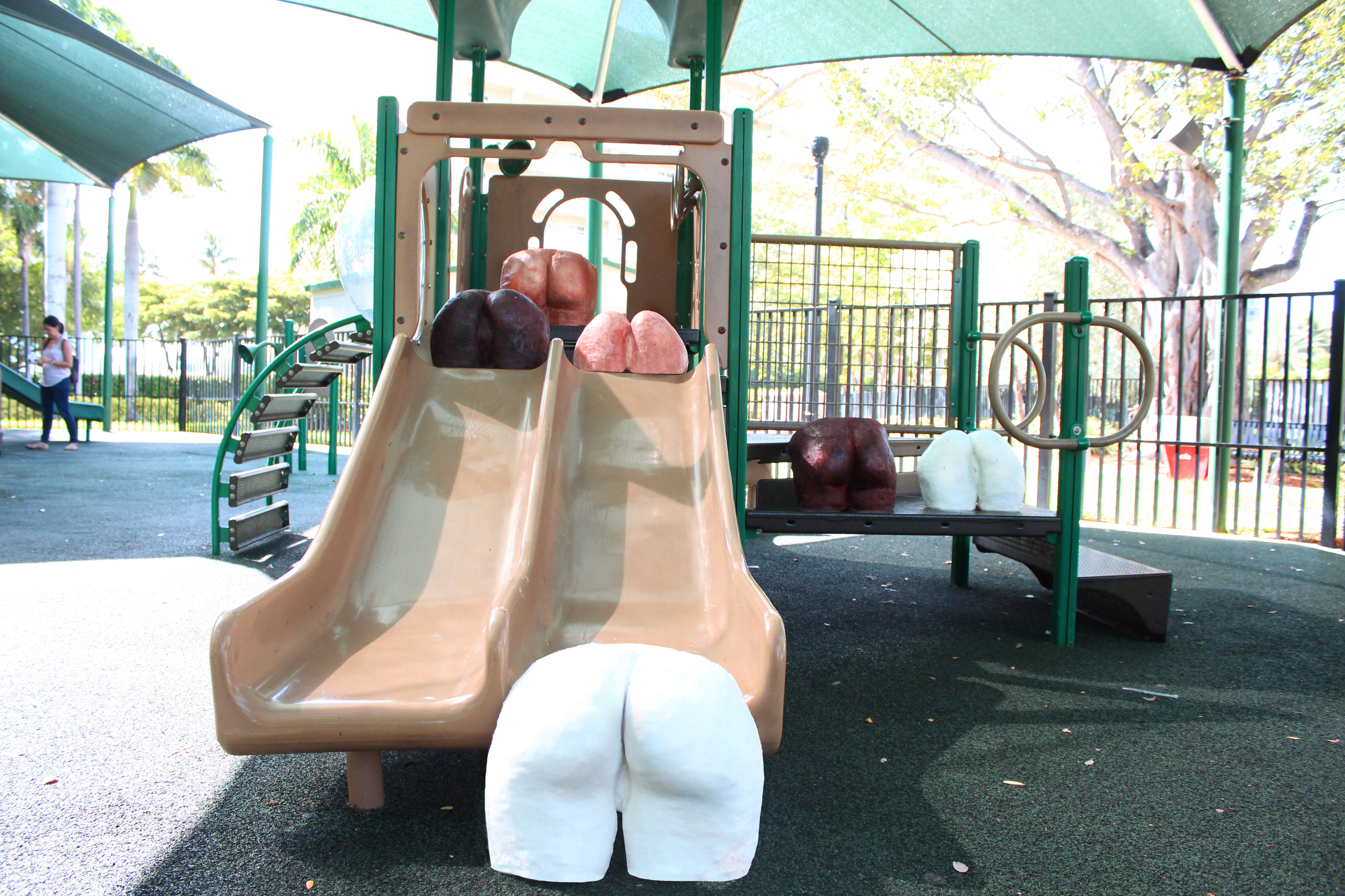 Wax That Ass, a project by artist Allison Bouganim, fuses sculpture, photography, and on-site intervention to explore the everyday discomfort felt in public places.